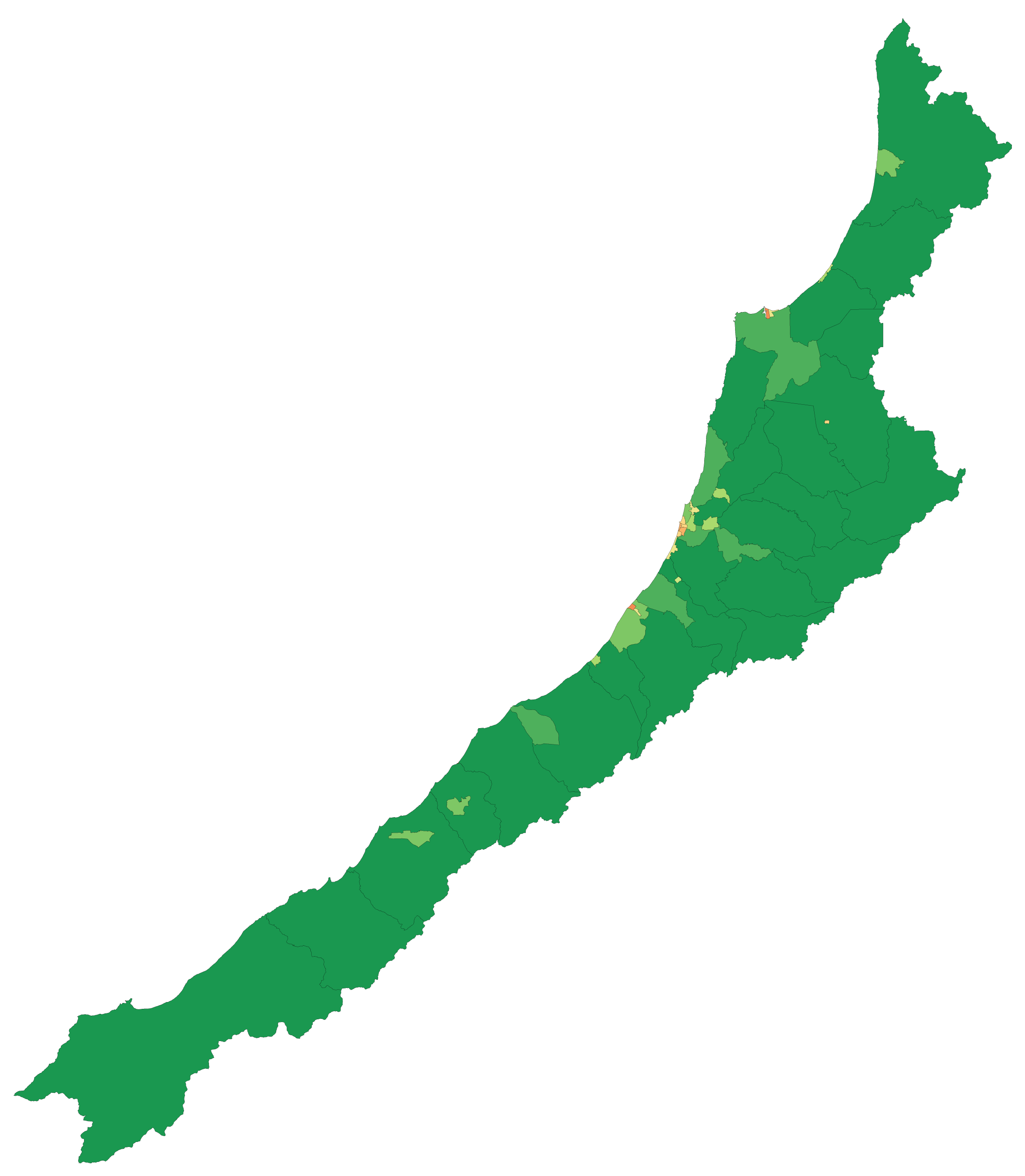 Map showing population density of a region of New Zealand (by Statistics NZ Area Unit) as of the 2006 census